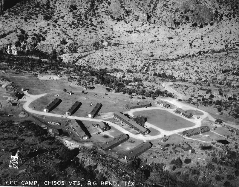 View of the CCC camp located in the Chisos Basin. Lettered buildings identified as: A- Headquarters Building B-Officer's Quarters C-Infirmary D-Recreation Hall E-Mess Hall F-Kitchen G-Radio Station H-Technical Service Quarters I through N-Crew Quarters O-Technical Office P-Chisos Power & Light Office less